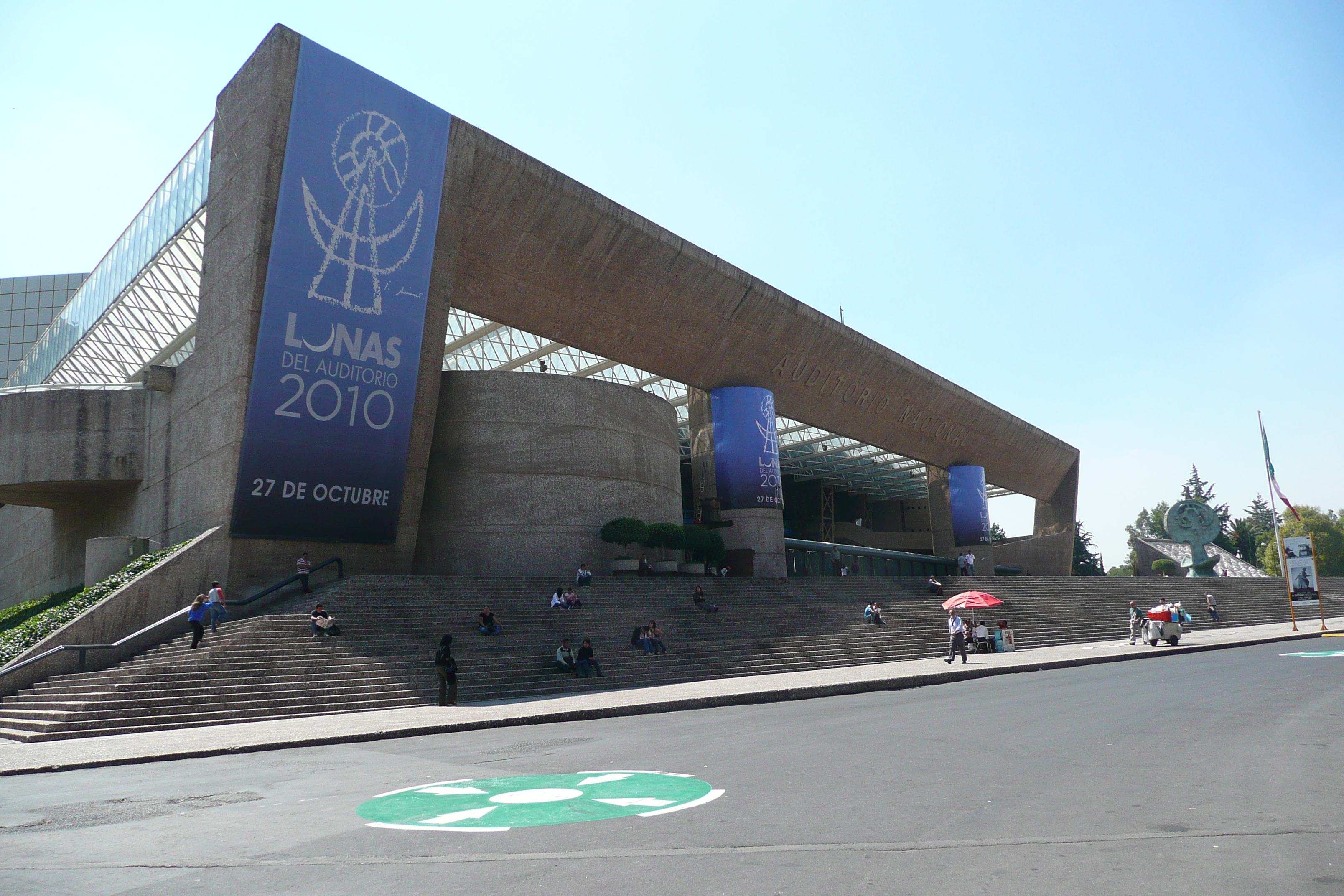 View east to west of the Auditorio Nacional in Mexico City, taken on October 23, 2010.